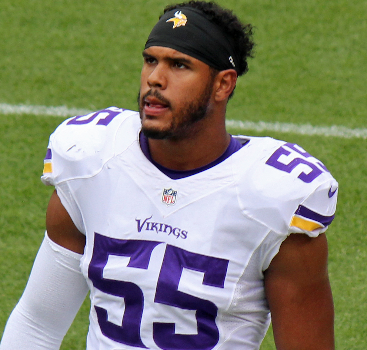 Anthony Barr, a player on the National Football League.